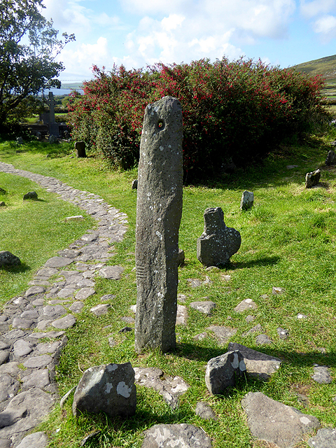 Ogham stone, Kilmalkedar Church